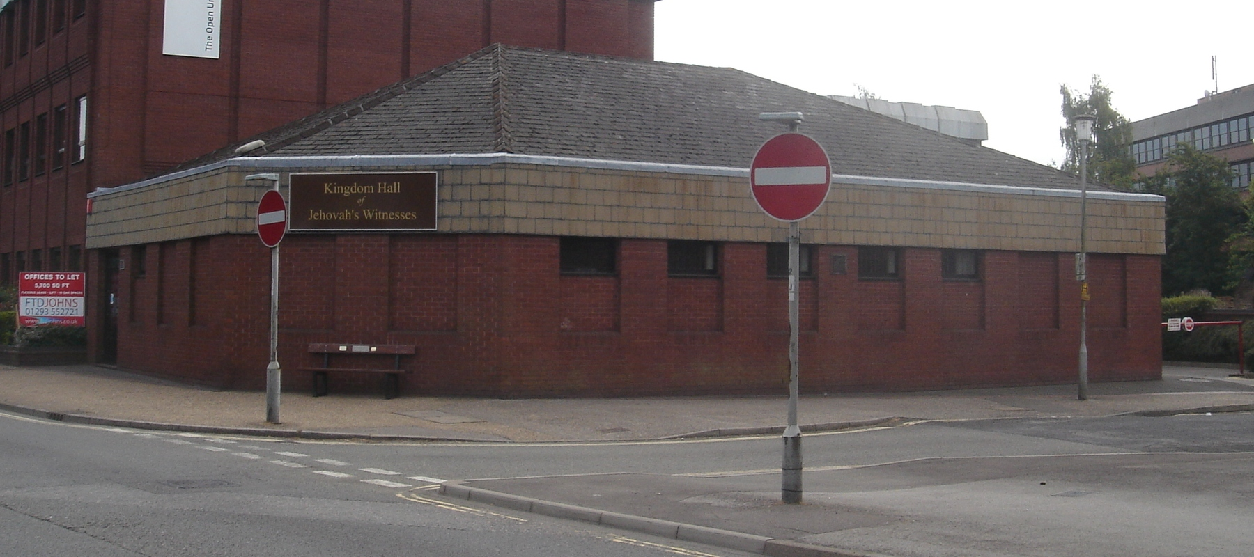 Jehovah's Witnesses Kingdom Hall, London Road, East Grinstead, District of Mid Sussex, West Sussex, England. Built as a permanent place of worship for this community, which previously used a disused Salvation Army hall further along the road.